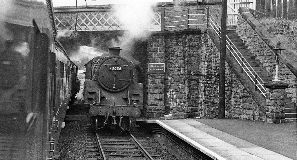 Trains meet at Knighton Station. View SW, towards Llandrindod Wells, Llandovery, Llandilo and Swansea; ex-London & North Western Craven Arms - Swansea (Central Wales) line. Photographed from a train from Shrewsbury via Craven Arms to SWansea, the 10.25 Swansea (Victoria) to Shrewsbury is entering Knighton, headed by BR Standard 5MT 4-6-0 No. 73036. (The instruction 'Cross the Line by the Bridge' seems very apt).